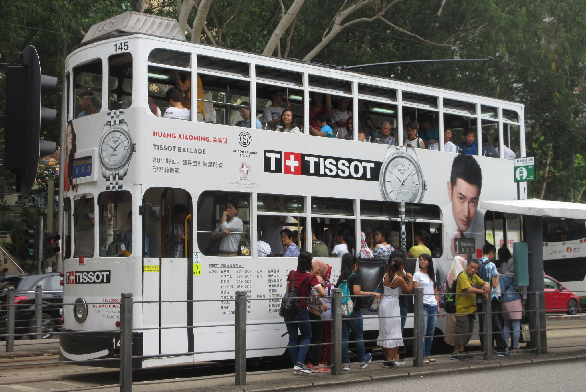 Tram body ads T+Tissot, Causeway Road, Causeway Bay, Hong Kong